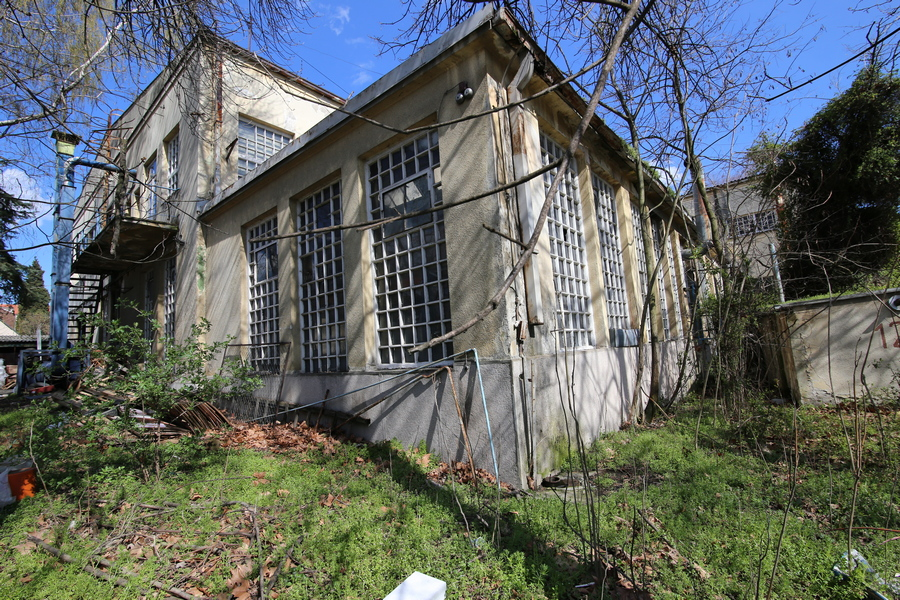 Factory Teleoptik Српски (ћирилица): Фабрика Телеоптик